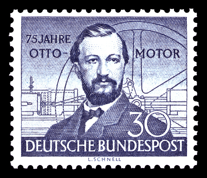 75 years of petrol engine, Nikolaus Otto (1832-1891) Graphics by Schnell Ausgabepreis: 30 Pfennig First Day of Issue / Erstausgabetag: 25. Juli 1952 Michel-Katalog-Nr: 150